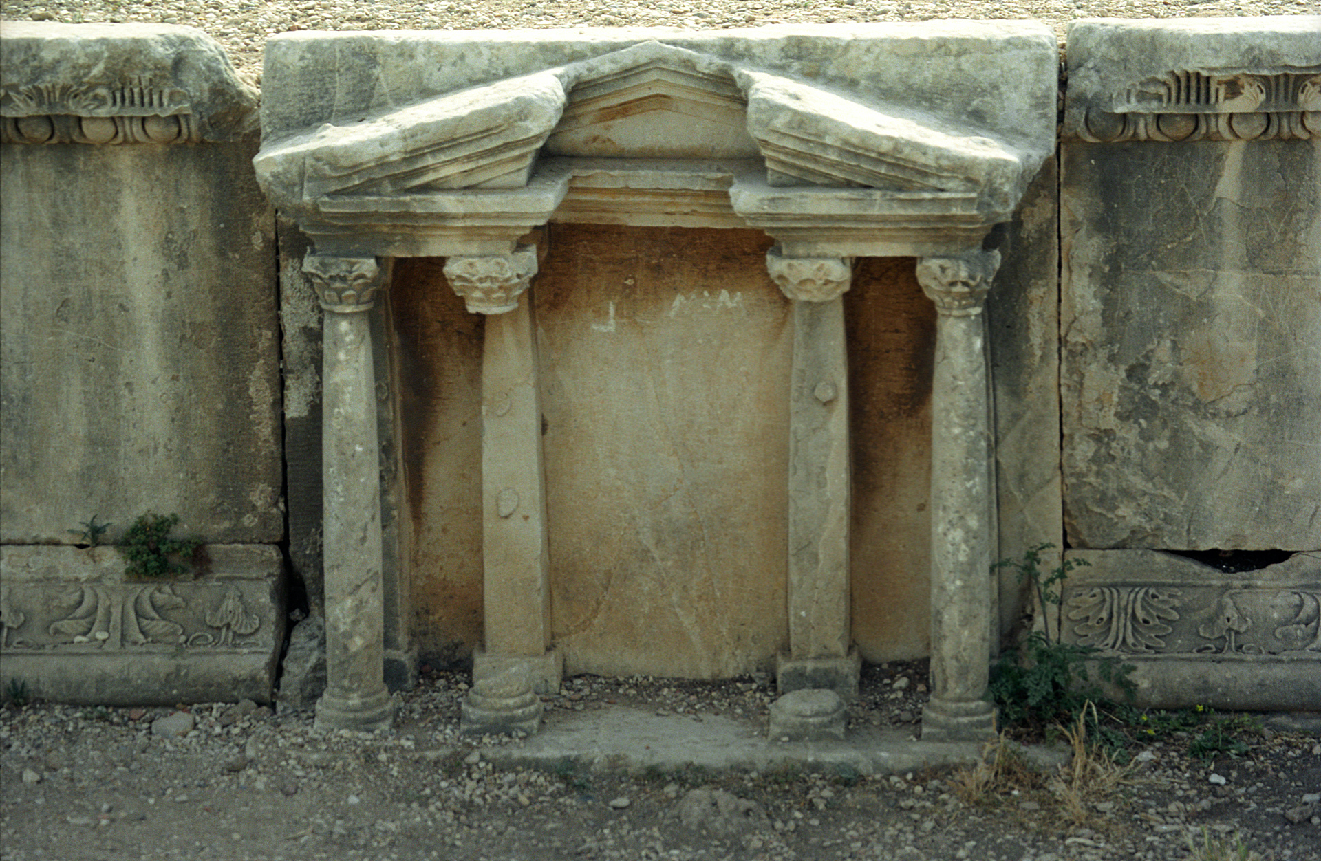 Byblos, Decoration of Roman Theatre